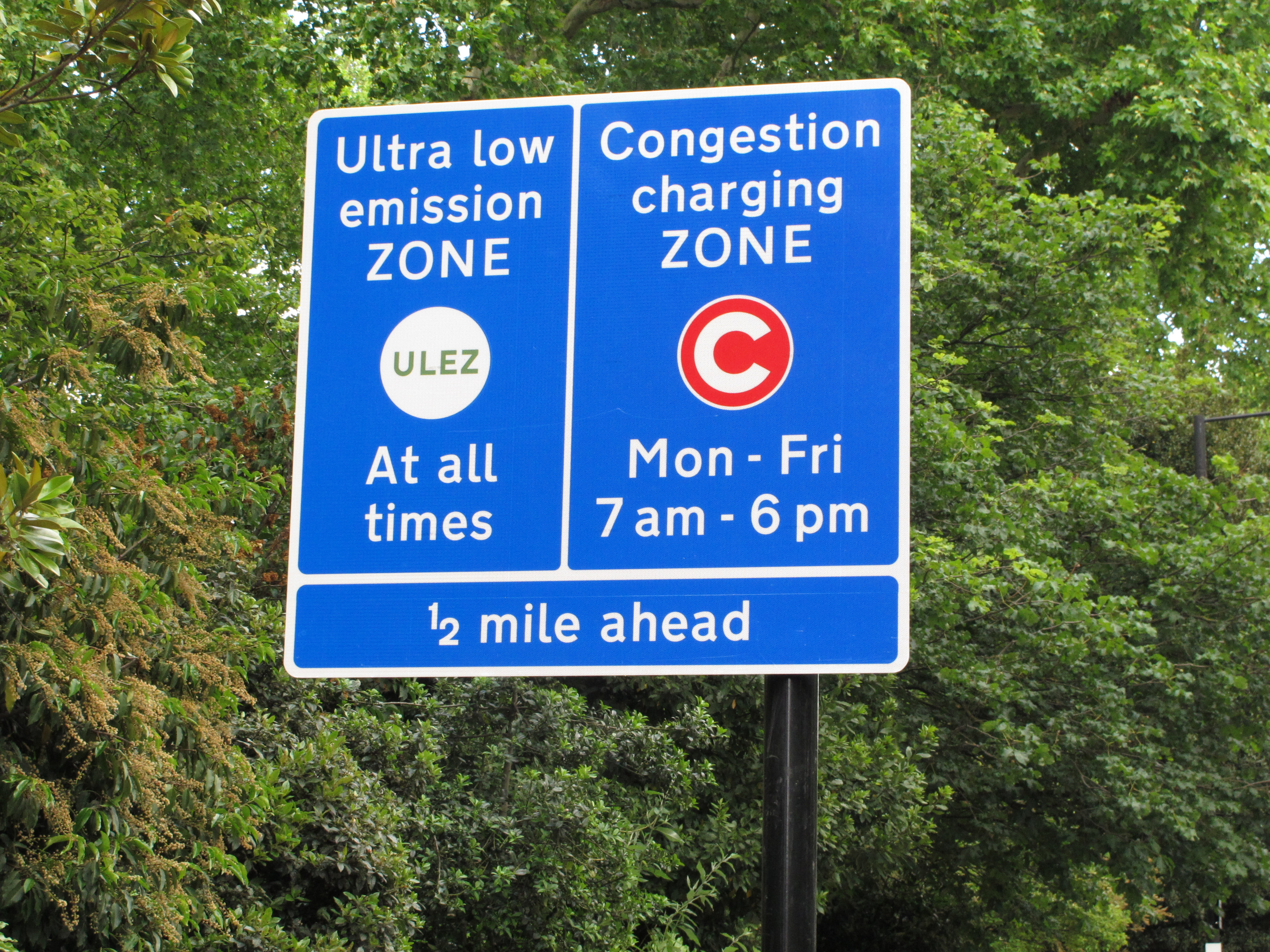 Sign warning drivers in London that they are about to enter the Ultra Low Emission Zone and Congestion Charging Zone. In the ultra low emission zone, the same area as the congestion charging zone, vehicles which do not meet specified standards for emission of air polluting nitrogen oxides (NOx) and particulate matter (PM) from engines have to pay a daily charge. The charges apply at all times. This sign is on the A3217 by Eaton Square.